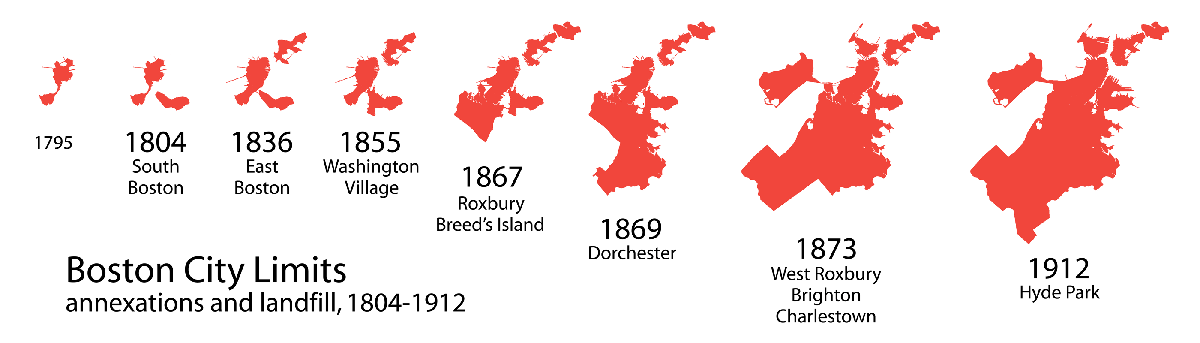 I am the creator of this map and hereby release it under the Creative Commons Attribution license. for more versions, Summary I am the creator of this map and hereby release it under the Creative Commons Attribution license. for more versions